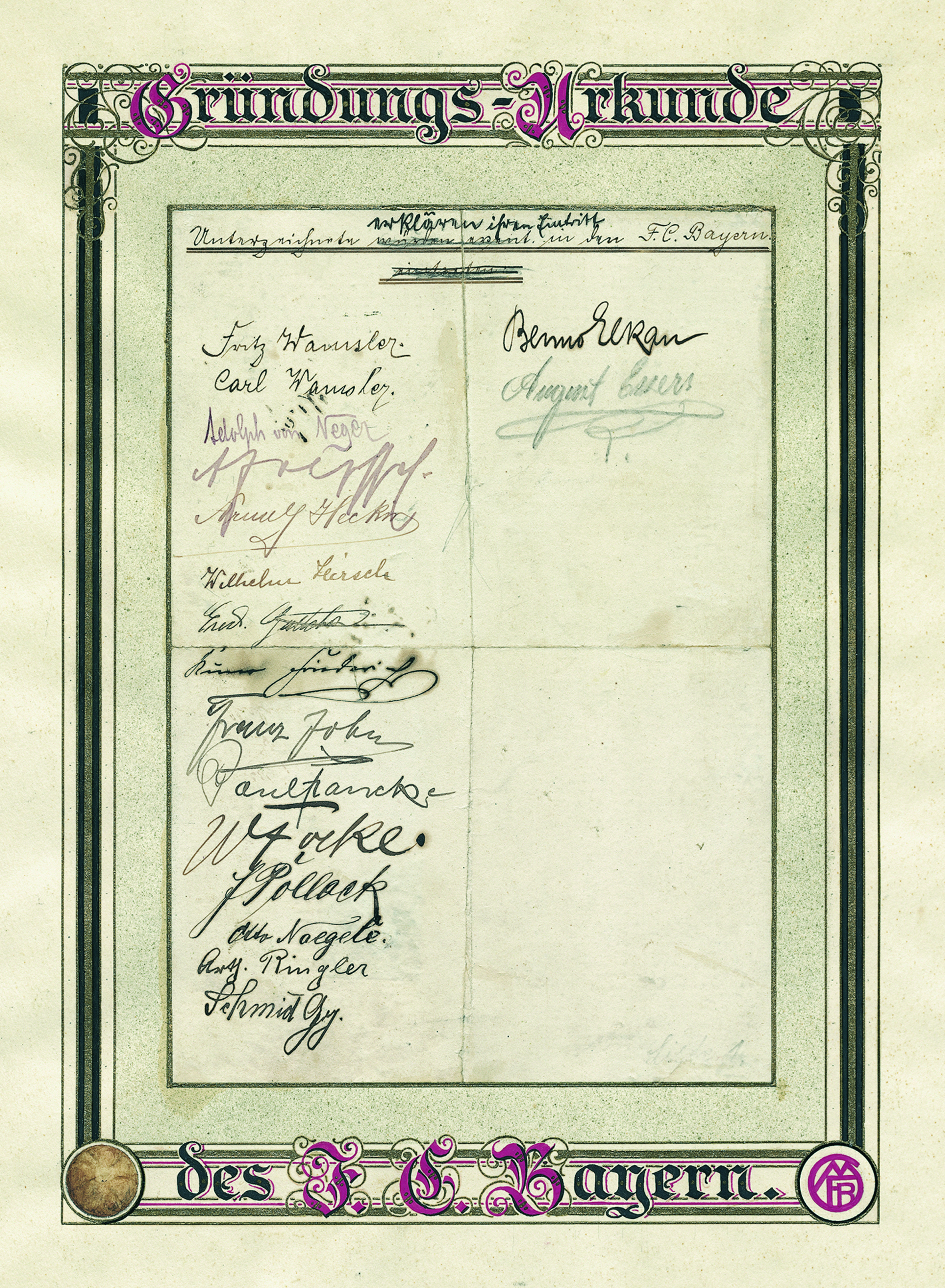 Founding act of FC Bayern Munich.